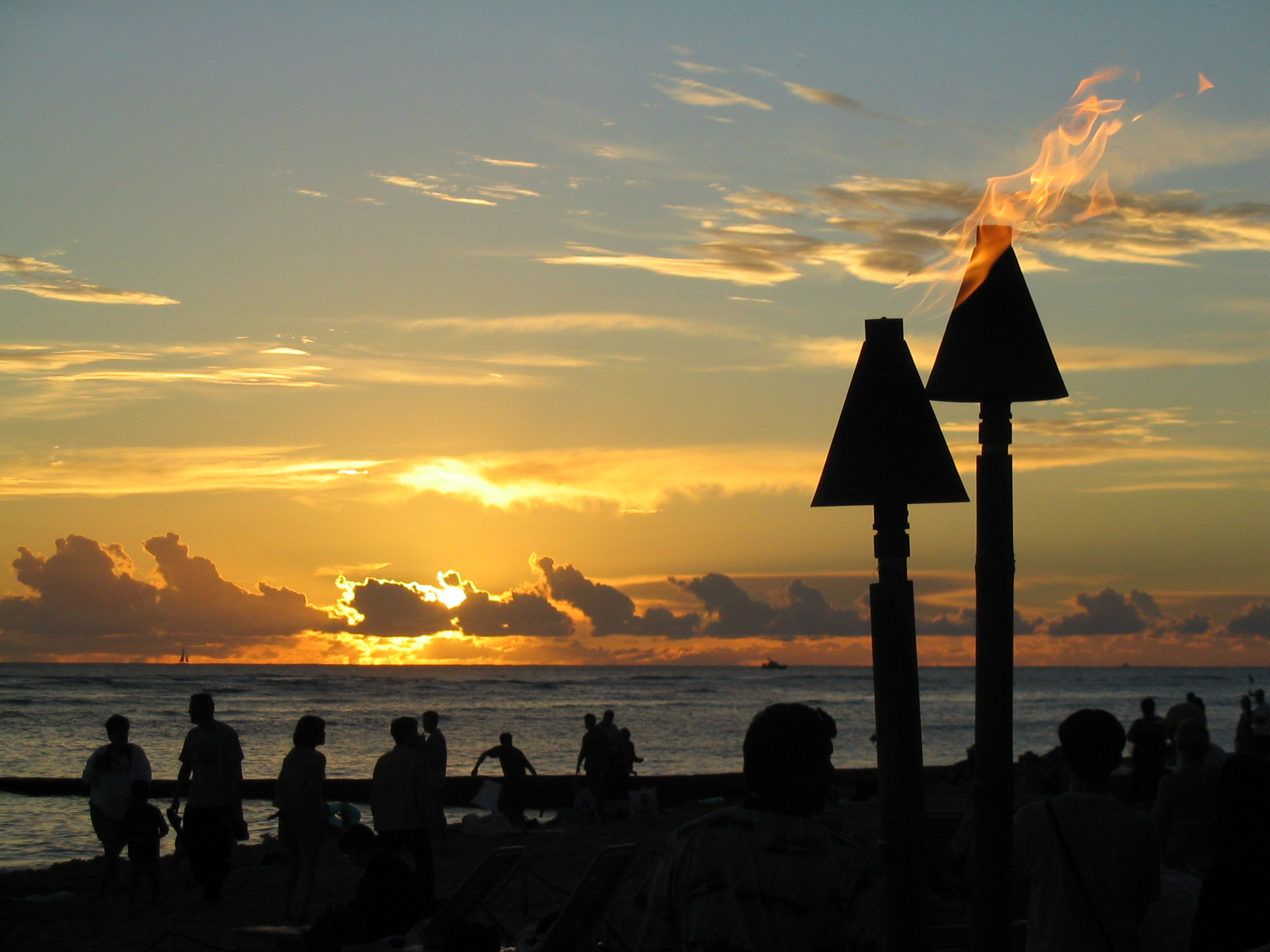 A sunset from a beach in Honolulu